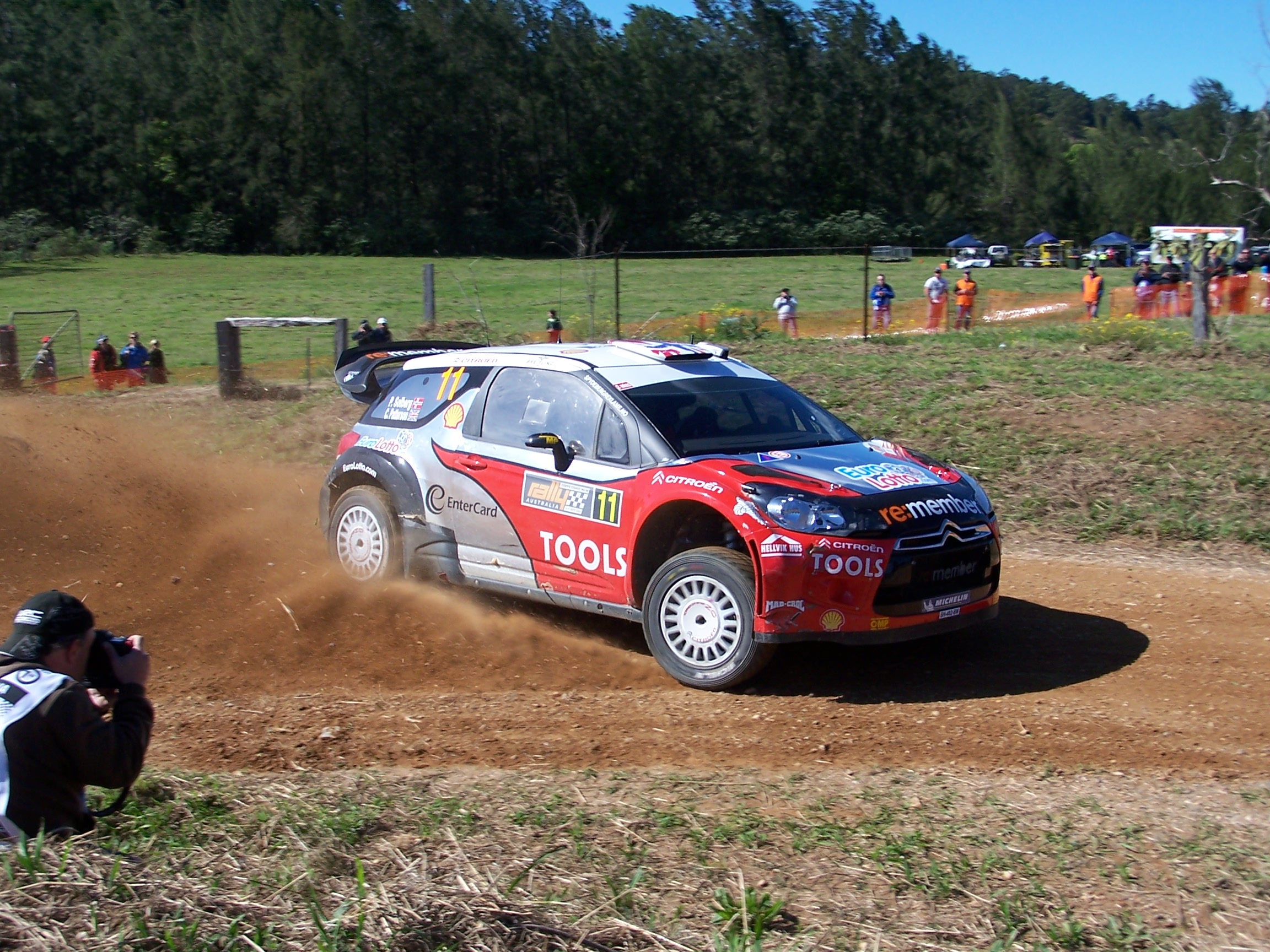 Petter Solberg drives his Citroën DS3 WRC at the 2011 Rally Australia.